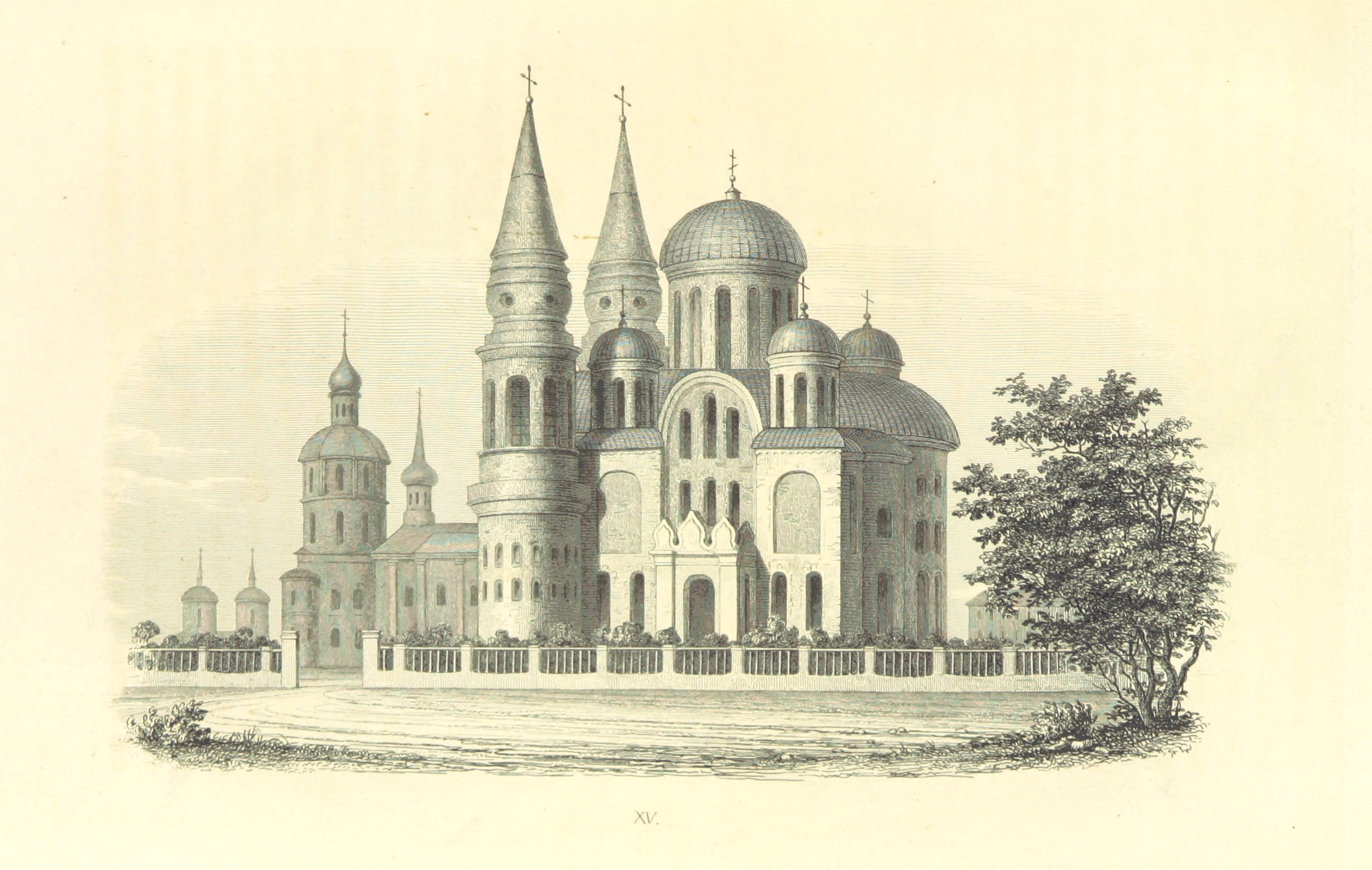 Transfiguration Cathedral, Chernihiv. Image taken from: Title: "Reise im Europäischen Russland in den Jahren 1840 und 1841. [With plates.]" Author: BLASIUS, Johann Heinrich. Shelfmark: "British Library HMNTS 10291.e.27." Page: 635 Place of Publishing: Braunschweig Date of Publishing: 1844 Issuance: monographic Identifier: 000374145 Explore: Find this item in the British Library catalogue, 'Explore'. Download the PDF for this book (volume: 0) Image found on book scan 635 (NB not necessarily a page number) Download the OCR-derived text for this volume: (plain text) or (json) Click here to see all the illustrations in this book and click here to browse other illustrations published in books in the same year. Order a higher quality version from here.